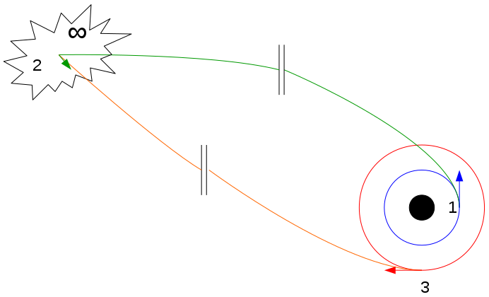 A bi-parabolic transfer from a low circular starting orbit (blue), to a higher circular orbit (red) around a central body (black). When the spacecraft arrives at point 1 it performs a prograde burn to enter a parabolic escape trajectory (green) until it reaches infinity. Then an infinitesimally small prograde burn brings the spacecraft to the second transfer parabola (orange). Finally at the vertex (point 3) a retrograde burn slows down the spacecraft to the final circular orbit.